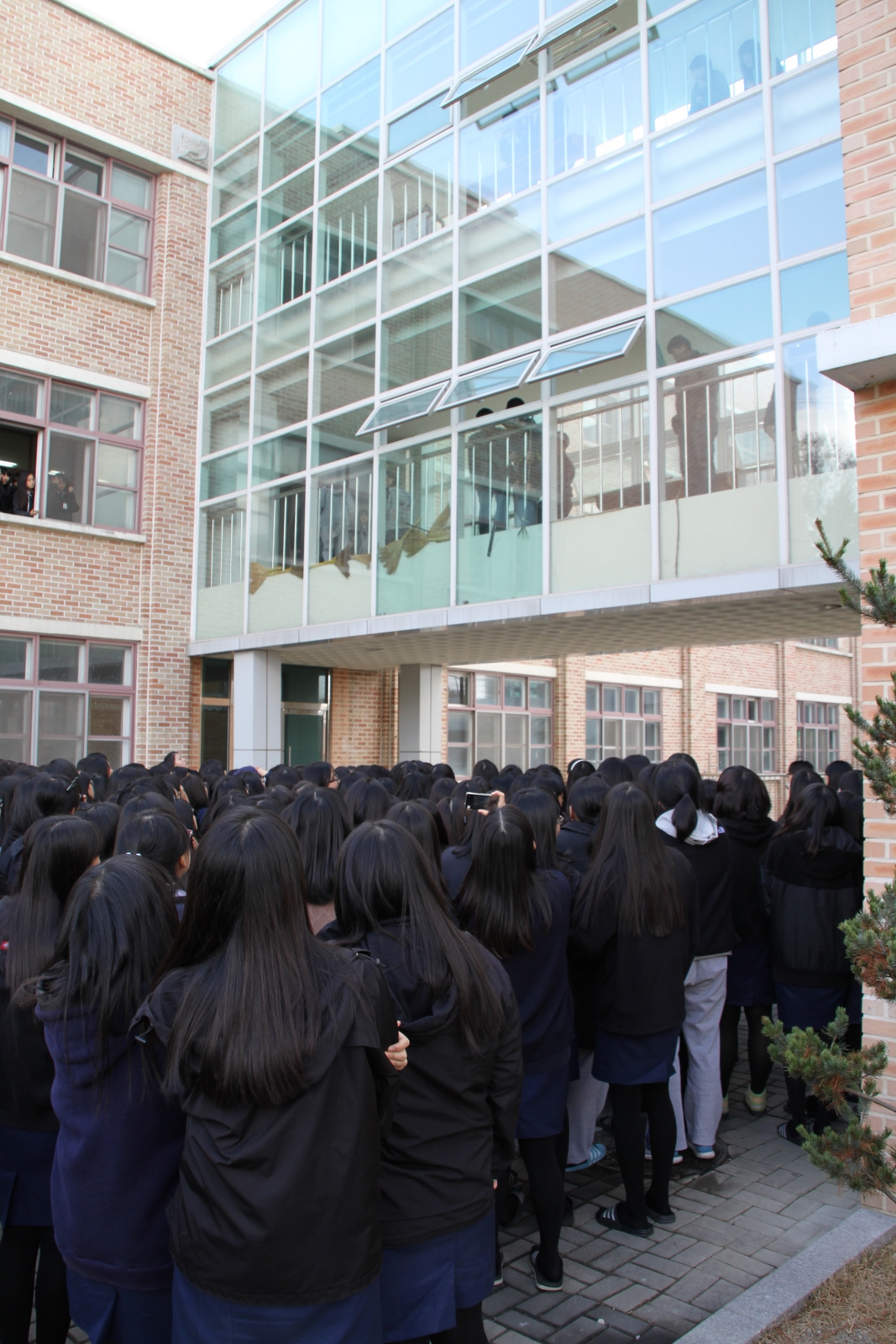 Students watch as teachers try to free a sparrow